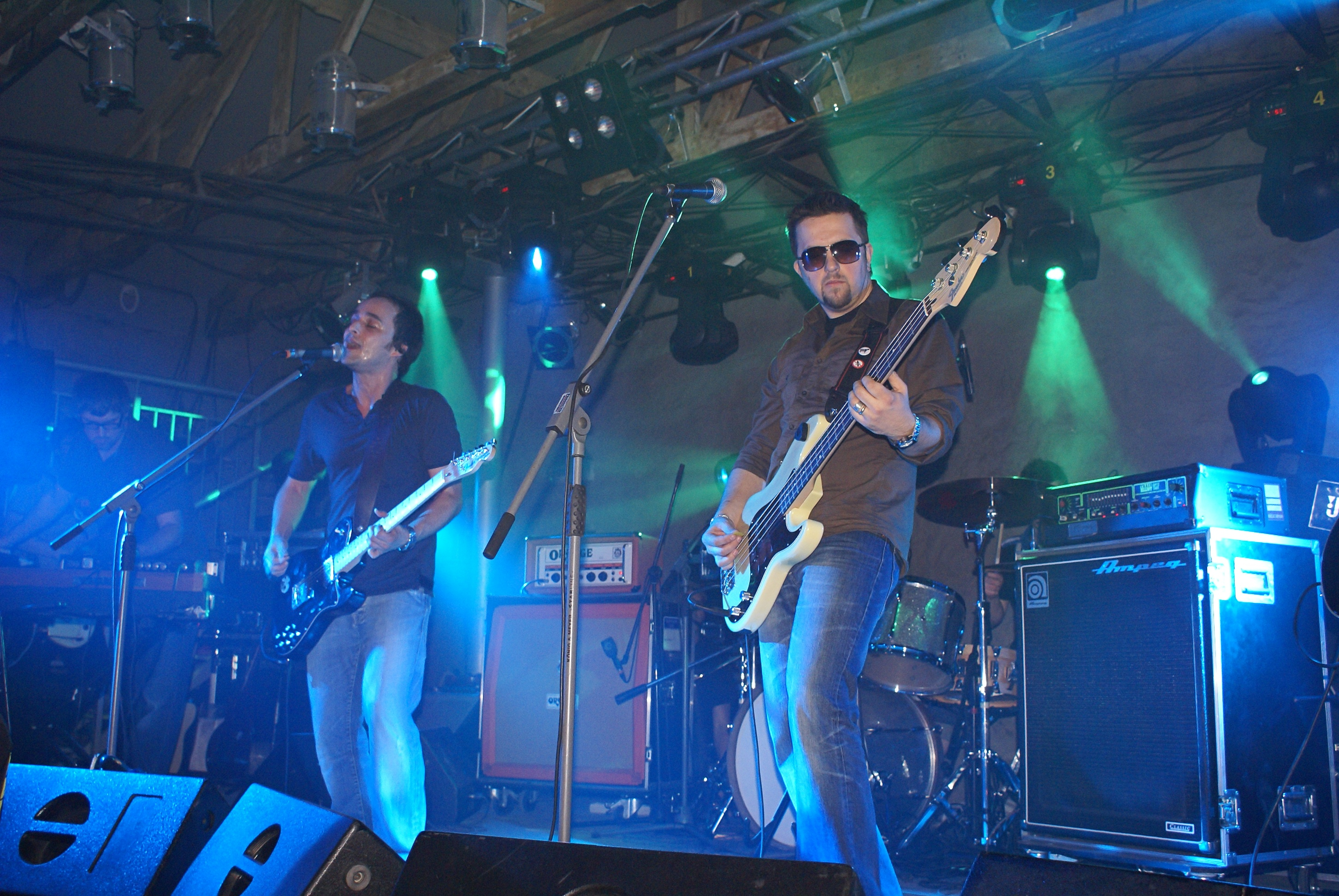 Myslovitz band in Mega Club (Katowice, Poland).